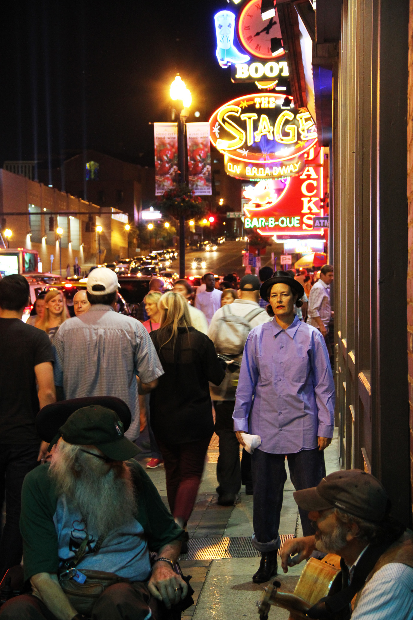 Nina Staehli in Nashville